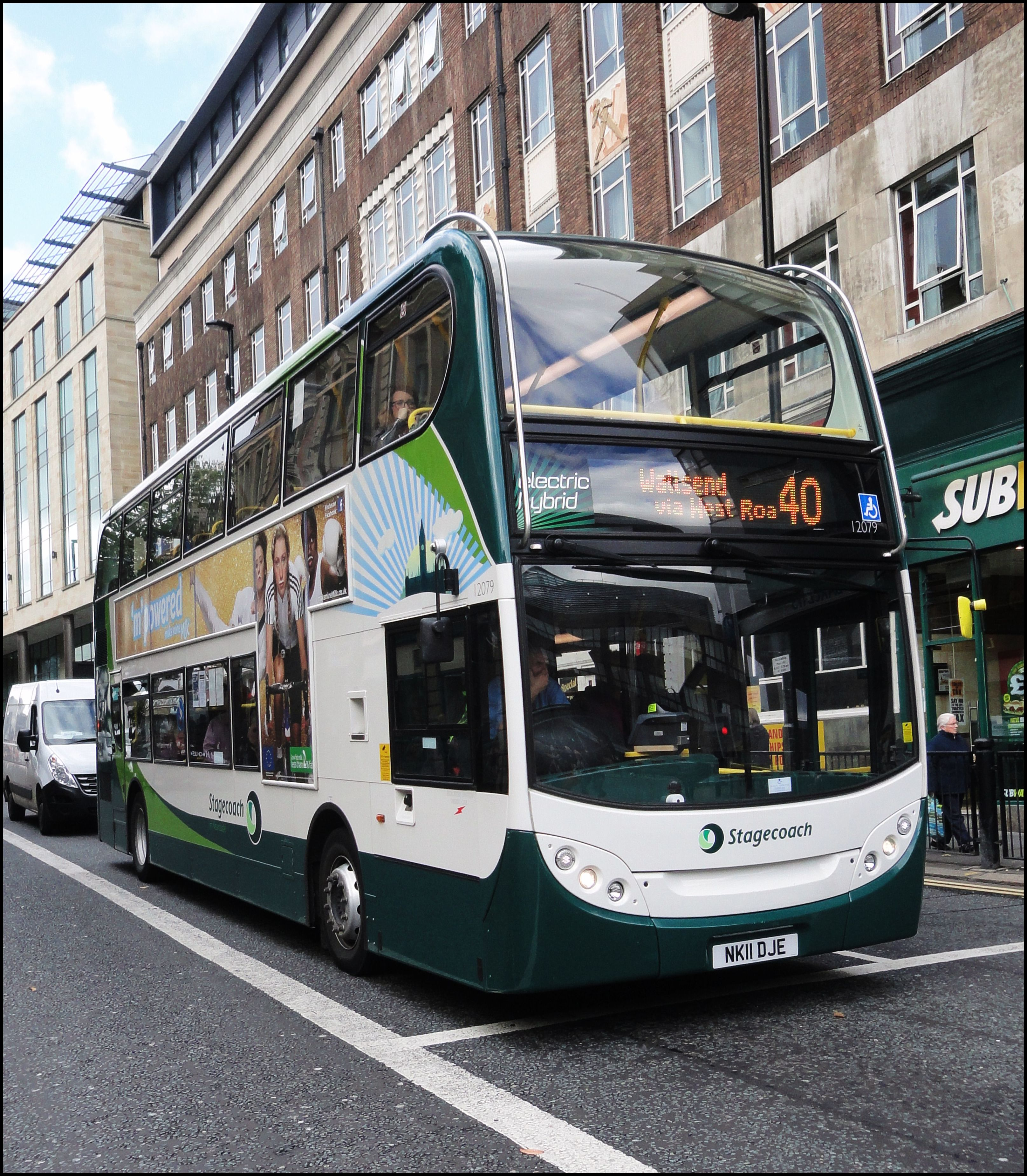 A Stagecoach Newcastle upon Tyne bus on route 40. It is an Alexander Dennis diesel-electric hybrid, registration mark NK11 DJE, fleet number 12079.